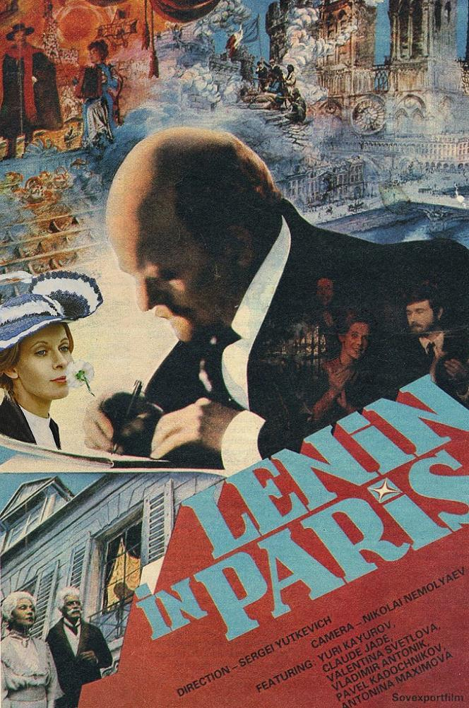 collage of scenes and poster title